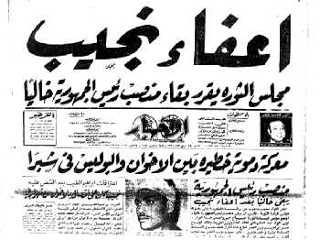 Muhammed Naguib out of office